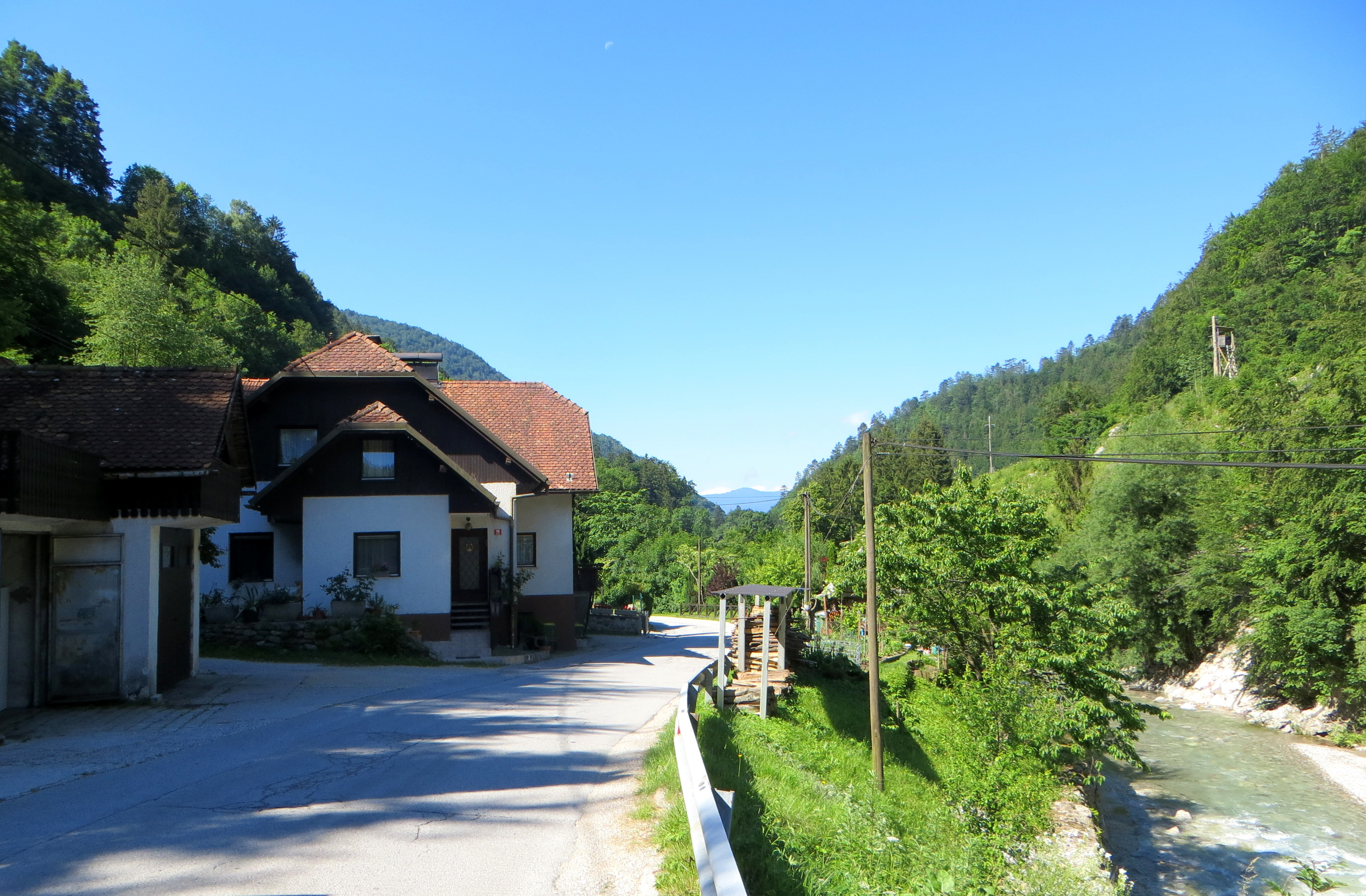 Slap, Municipality of Tržič, Slovenia